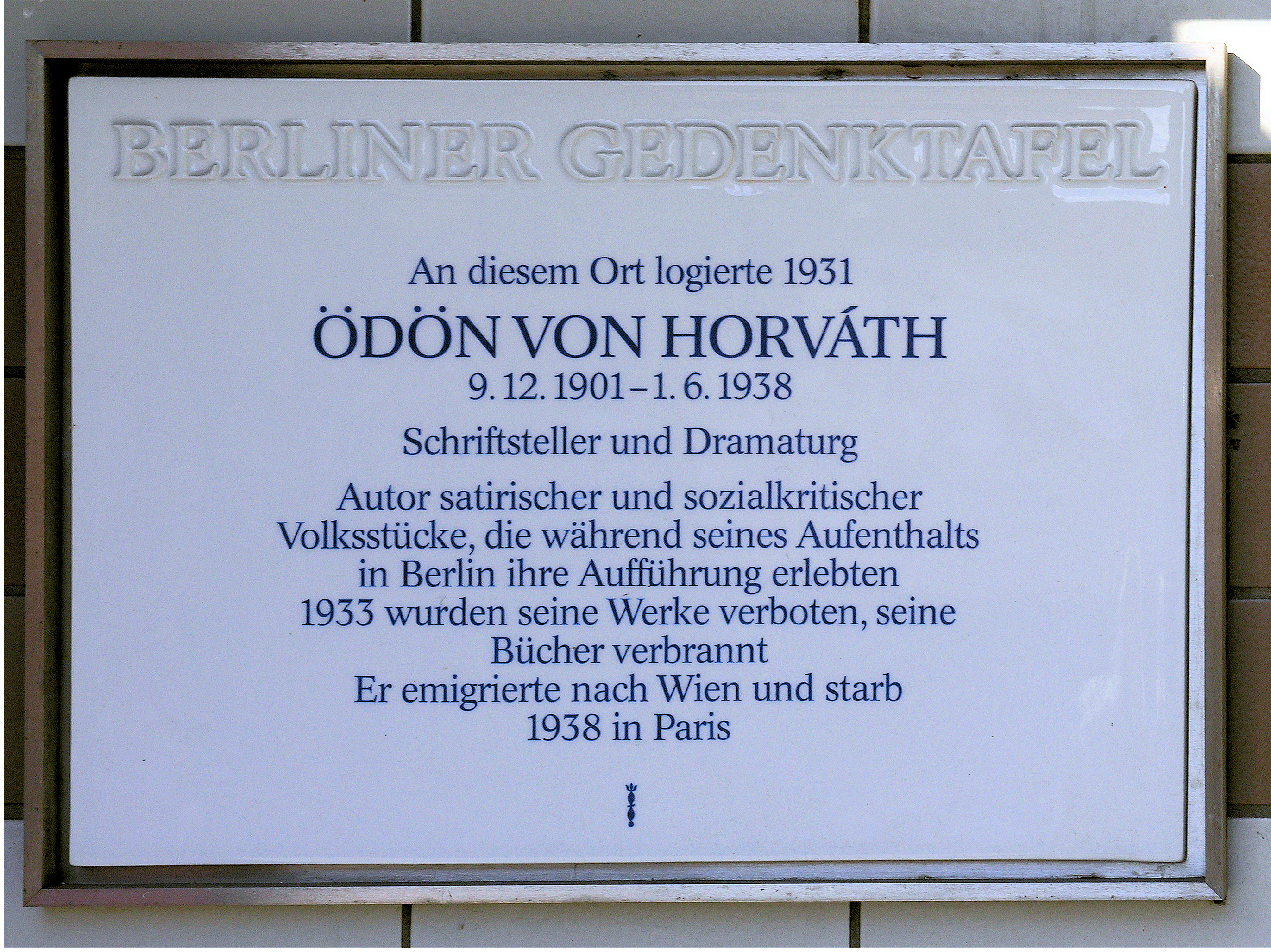 Berlin memorial plaque, Ödön von Horvath, Martin-Luther-Straße 20a, Berlin-Schöneberg, Germany Koordinate:52°29′50.4″N 13°20′44.5″E / 52.497333°N 13.345694°E